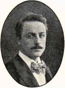 Johannes Alfvén (1878-1944), Swedish psychiatrist